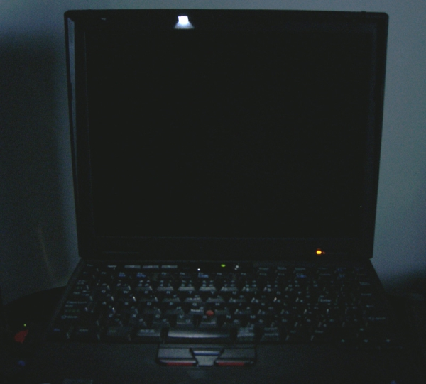 Personal Computer ThinkPad X20 {ThinkLight} IBM Japan